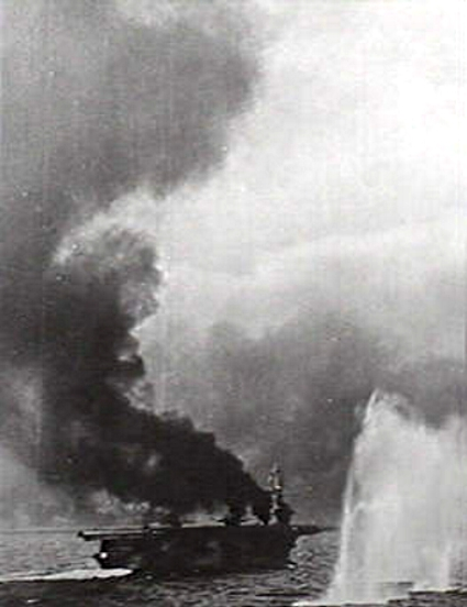 The U.S. Navy escort carrier USS St. Lo (CVE-63) making smoke while under fire from Japanese ships during the Battle off Samar.